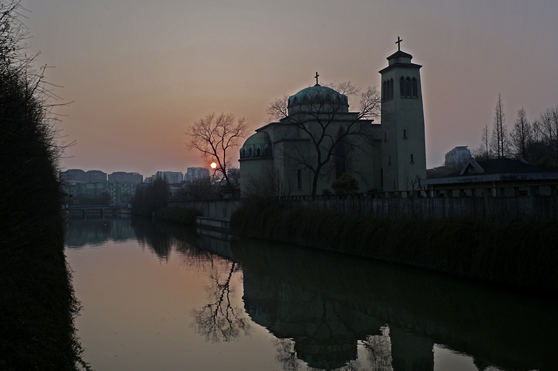 Catholic Country Church/Chaipei Funerary Chapel